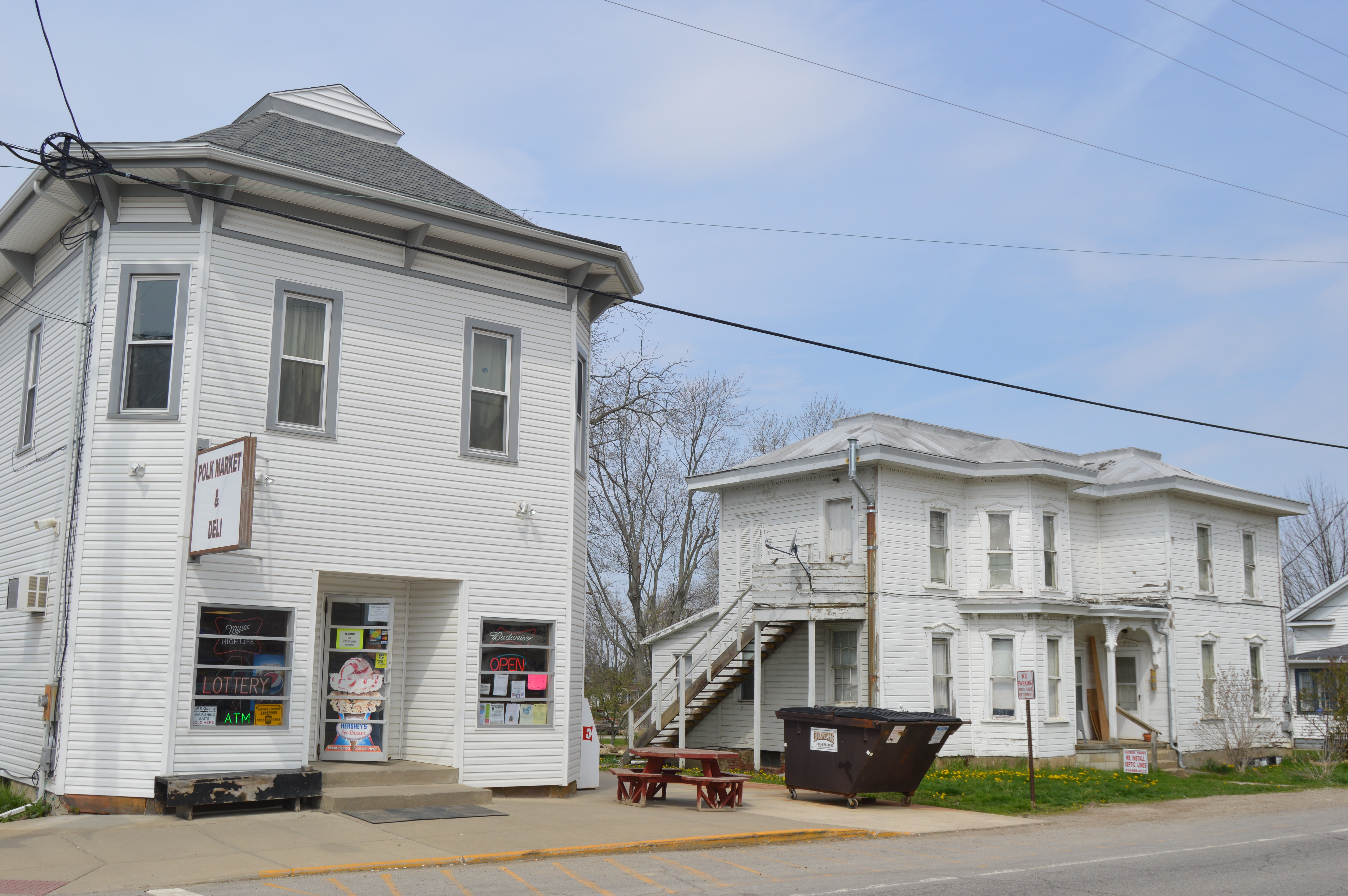 A grocery store and house on N. Main Street (State Route 89), just north of Congress Street, in central Polk, Ohio, United States.